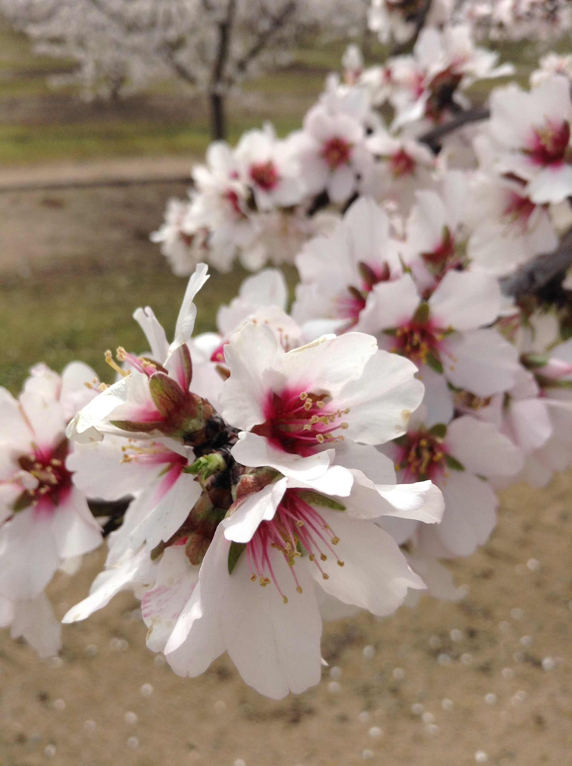 Almond blossoms along the Fresno County Blossom Trail.